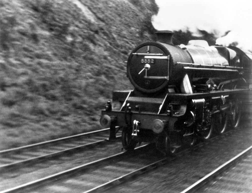 Image of train at speed from the documentary film Night Mail by the GPO Film Unit